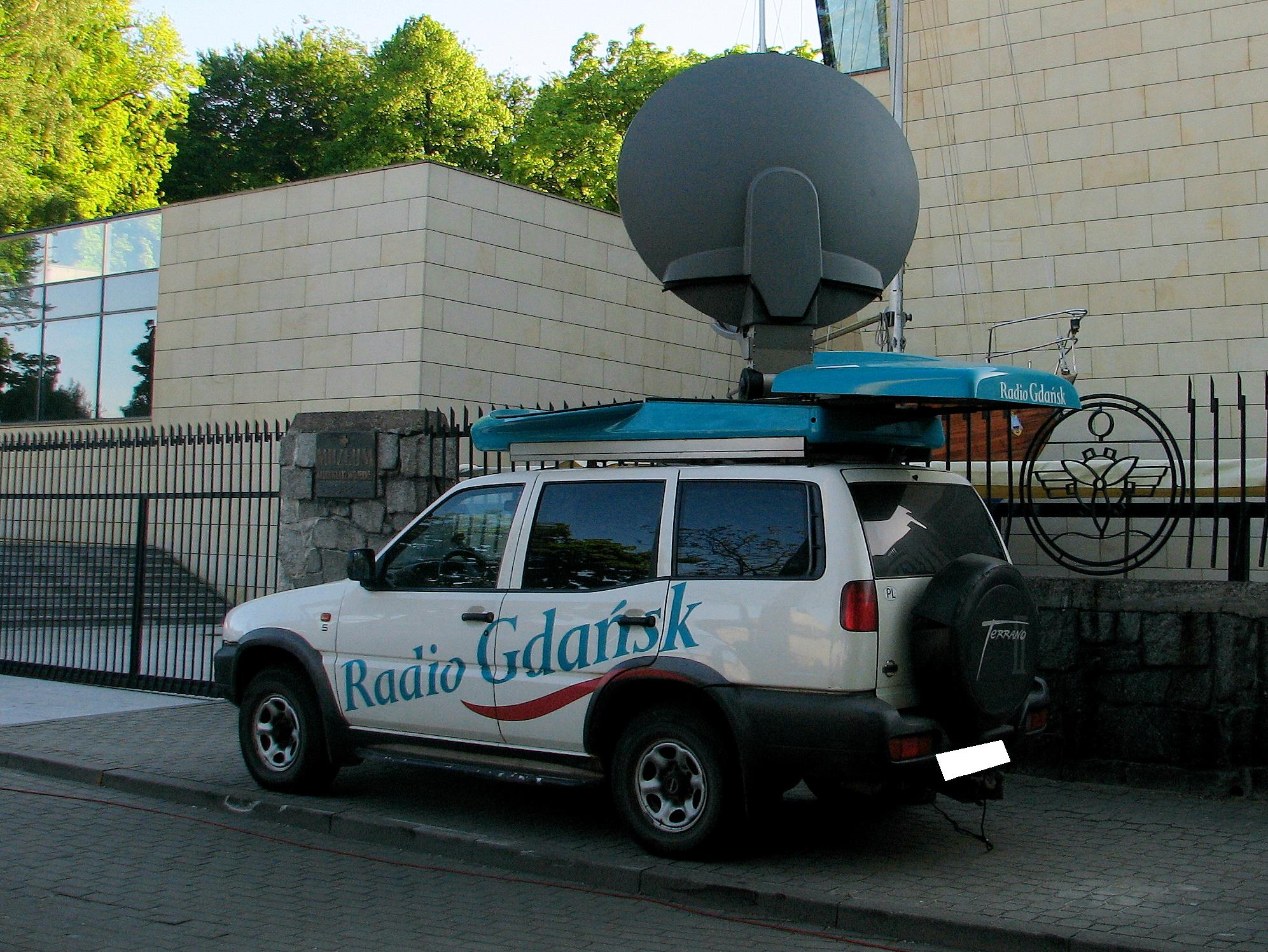 Outside broadcasting van of Radio Gdańsk during XXXV Polish Film Festival in Gdynia 2010.